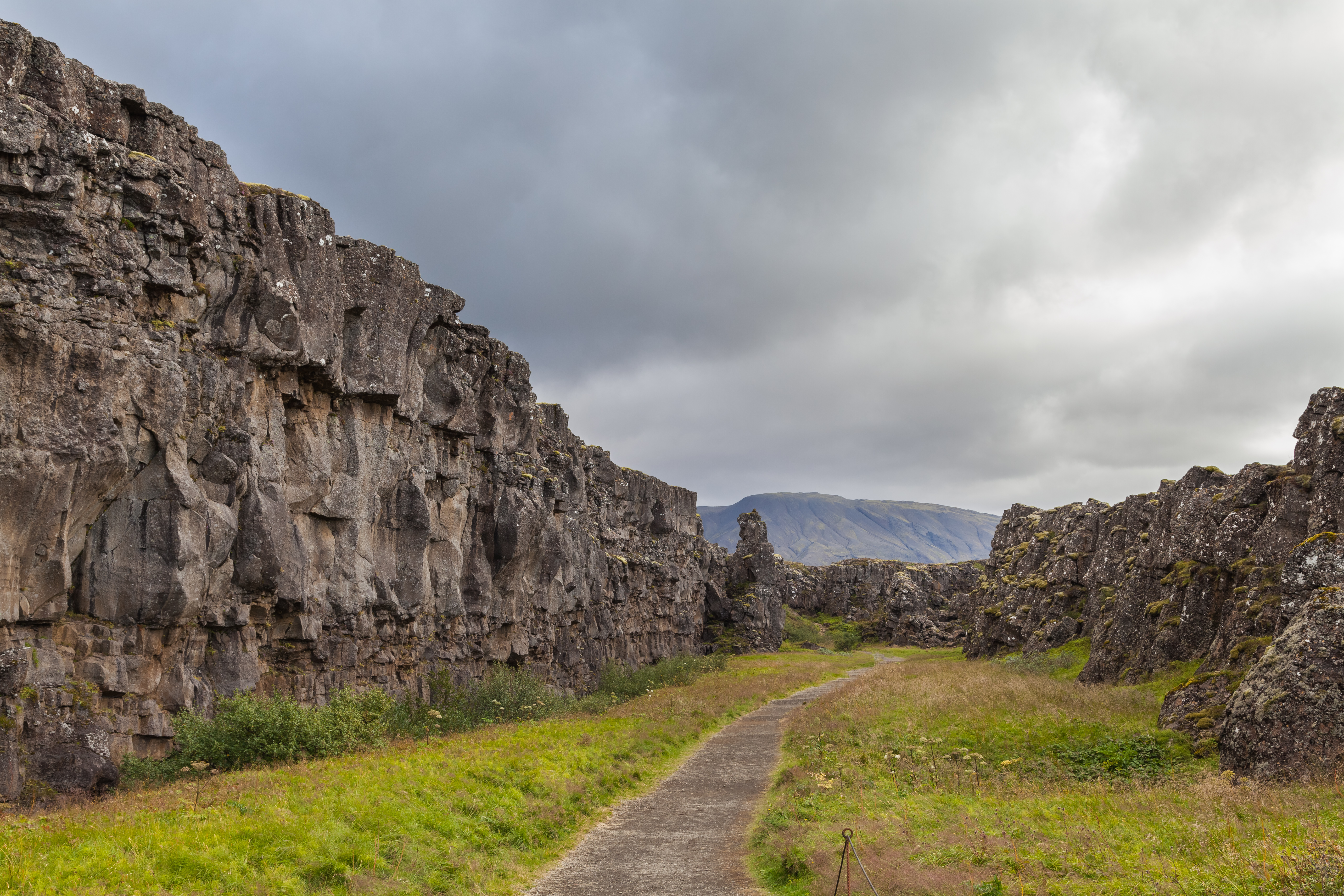 Lögberg (icelandic for Law Rock), Þingvellir National Park, Southern Region, Iceland. The Lögberg was the place on which the lawspeaker (lögsögumaður) took his seat as the presiding official of the assembly of the Althing, the national parliament, from 930 until 1262 (when Iceland took allegiance to Norway). Speeches and announcements were made from the spot and anyone attending could make their argument from the Lögberg.